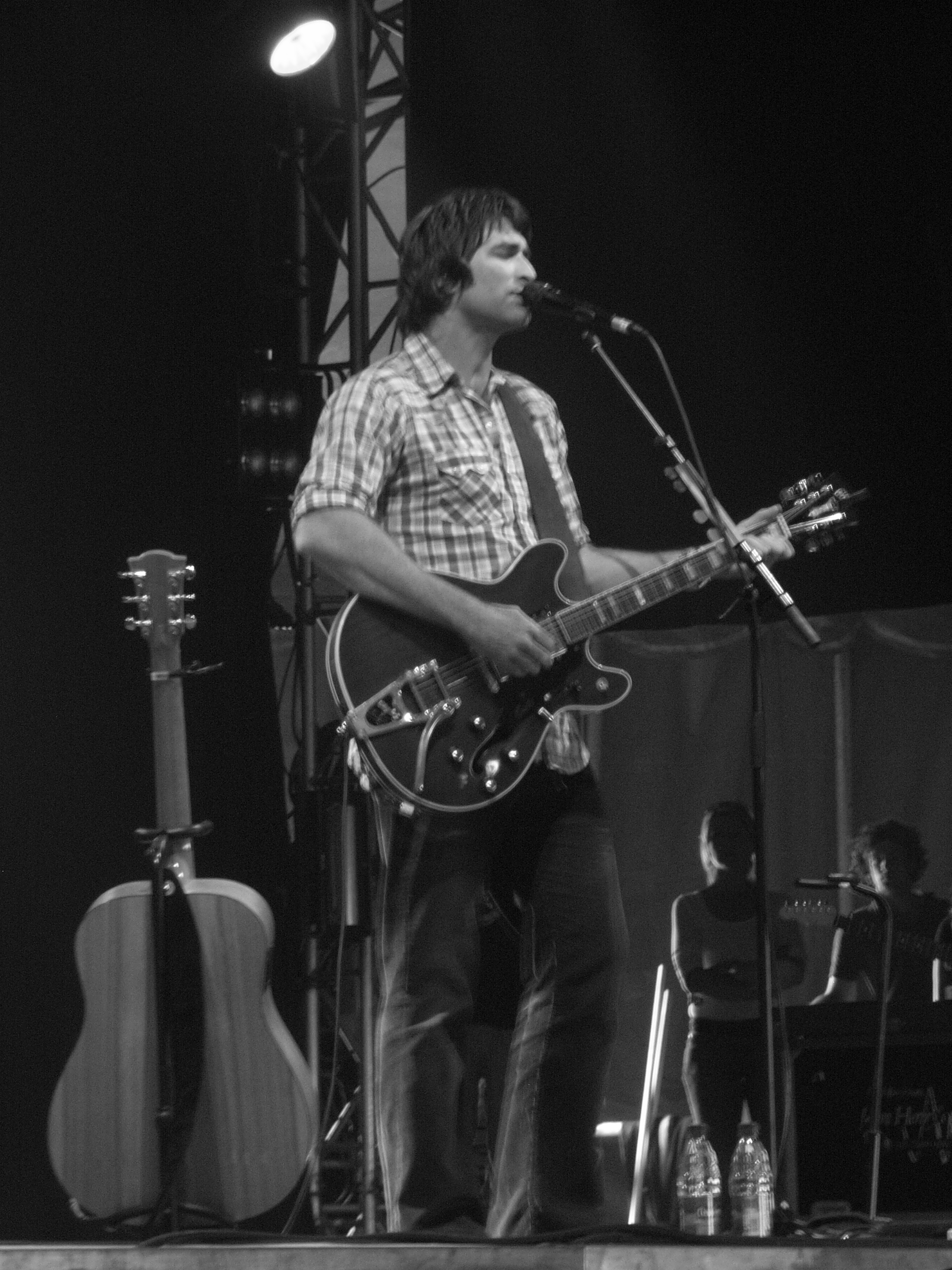 Pete Murray performing